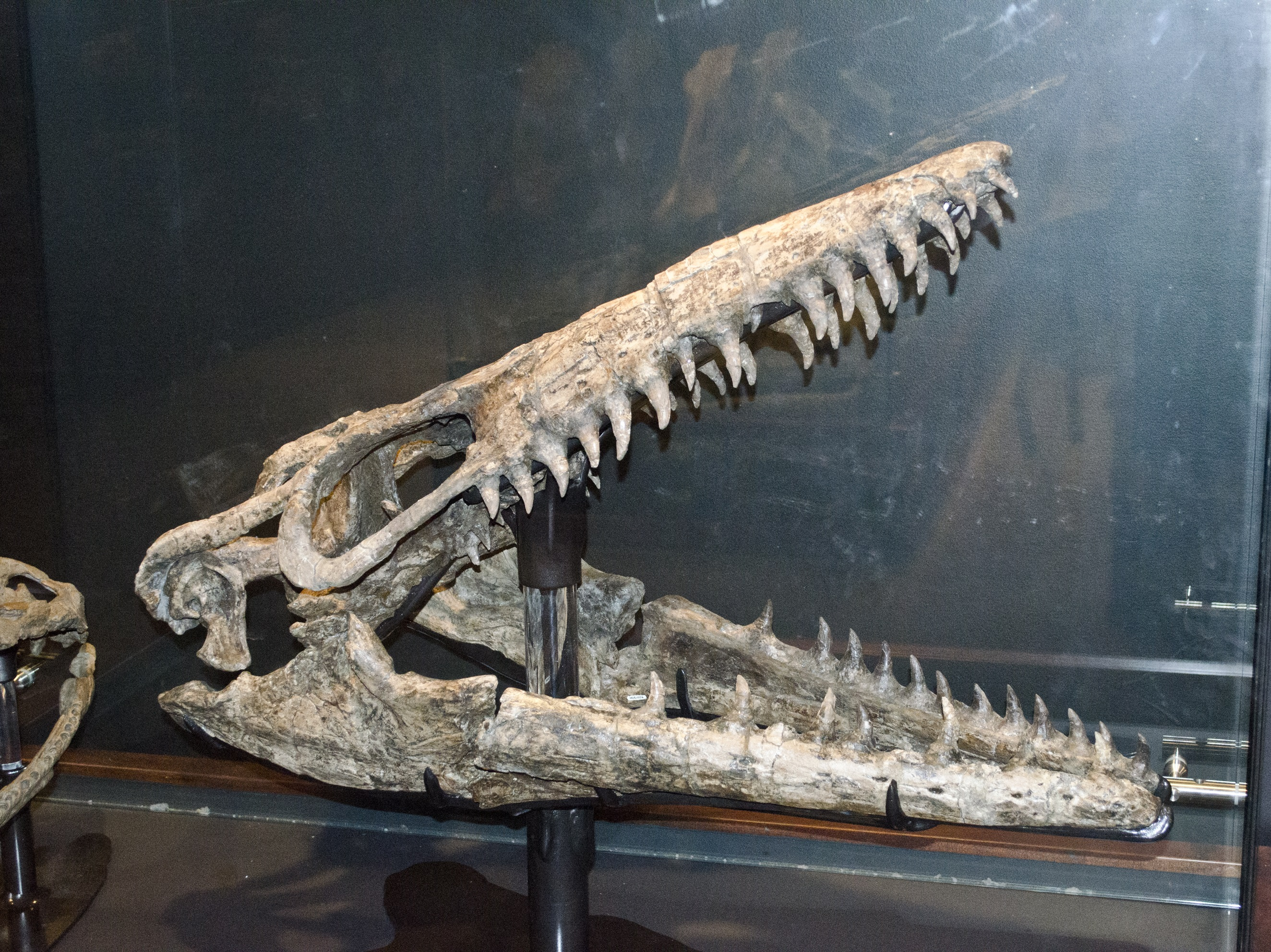 MOR 006 Mosasaurus conodon